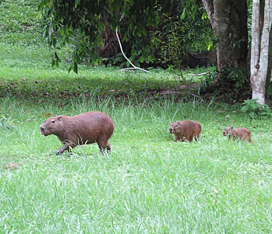 A family of Lesser Capybara head for the effluent pond at Gamboa Rainforest Resort in Panama. The species is found in Panama and northernmost South America.